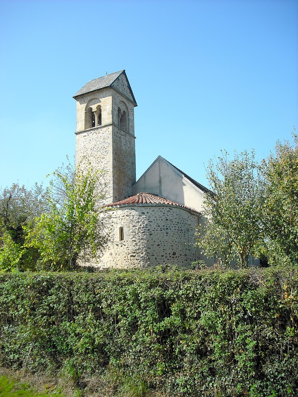 Eglise Sainte Madeleine d'Avrée